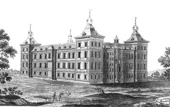 Casle Van Naussau-Siegen in Ronse